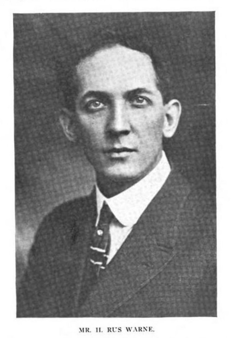 Photo portrait of H. Rus Warne (1872-1954), noted architect of Charleston, West Virginia. Taken circa 1916.